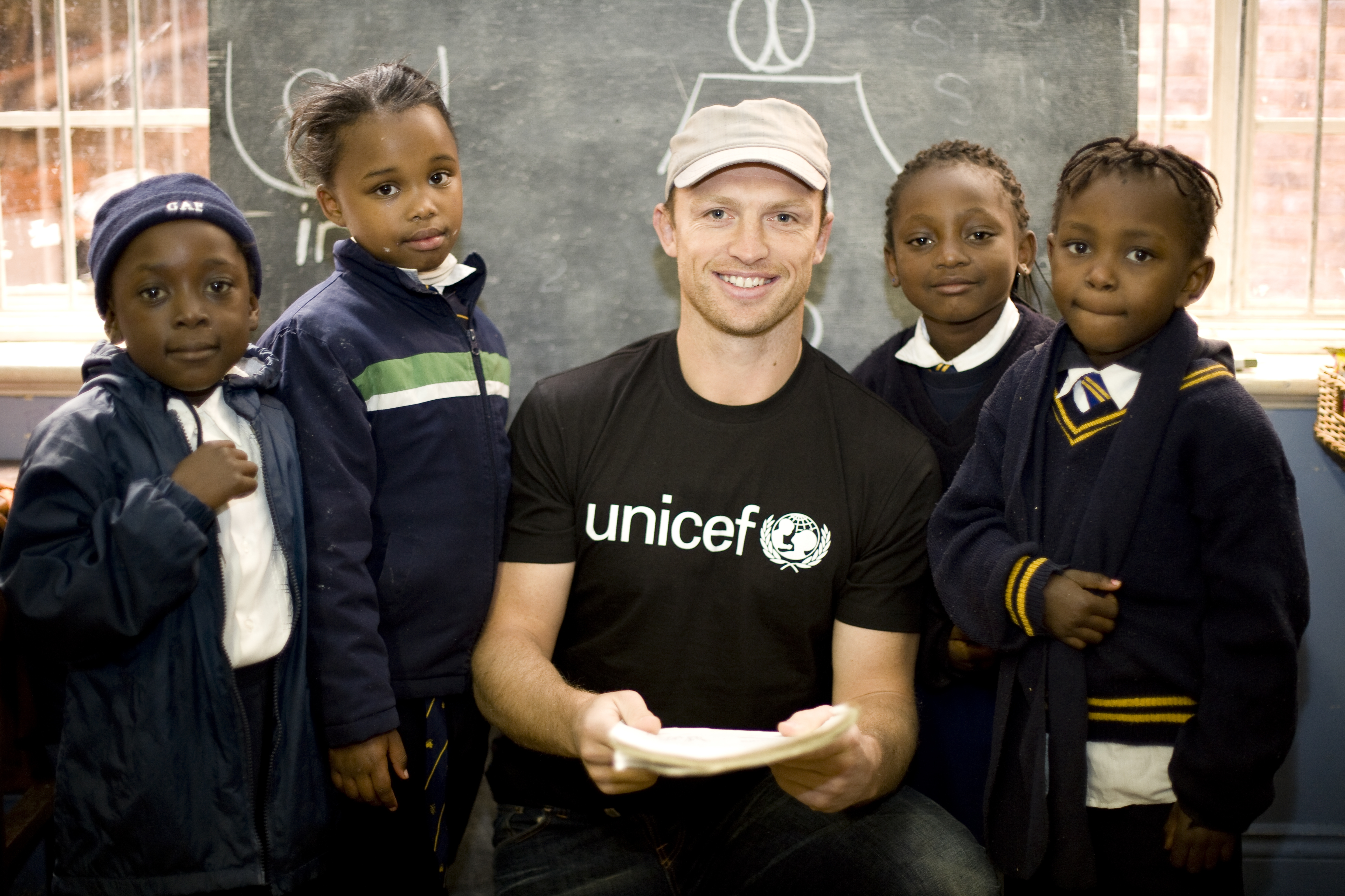 UNICEF Ambassador Matt Dawson meets pupils at the UNICEF funded Albert School in Johannesburg, South Africa